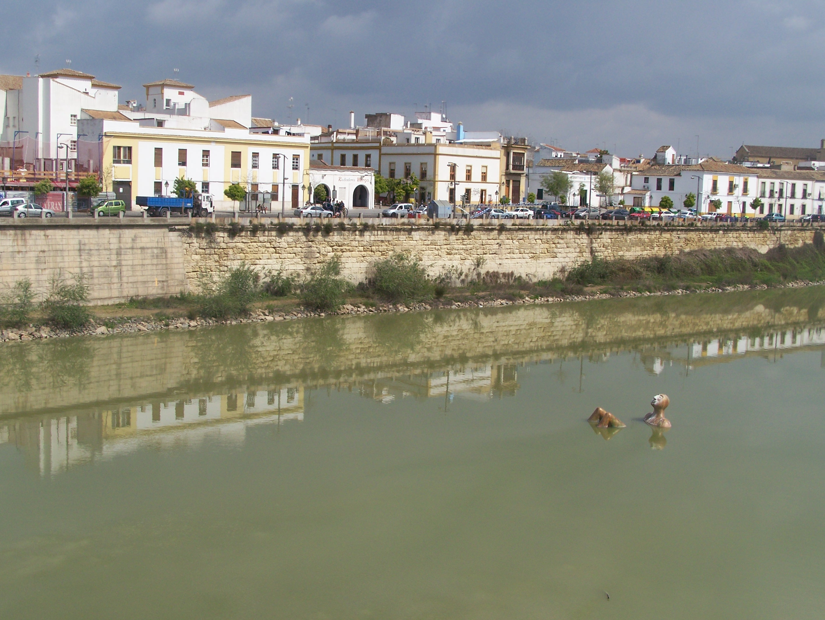 The floating Hombre Río in the Guadalquivir, Córdoba, Spain.